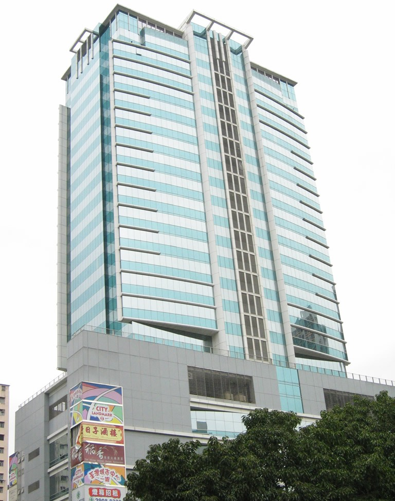 City Landmark I, Tsuen Wan, New Territories, Tsuen Wan